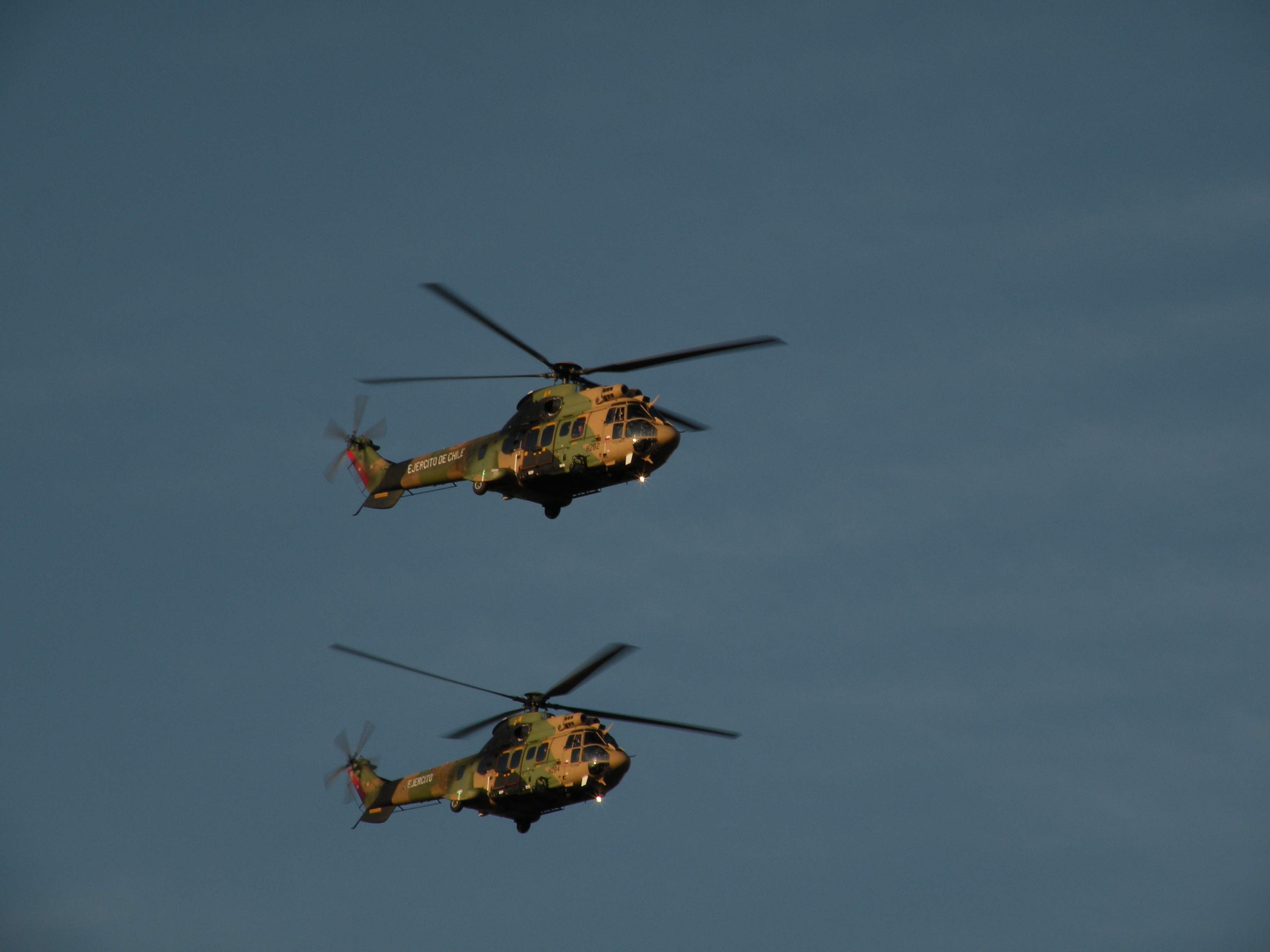 Military helicopters of Chile, September 2010.